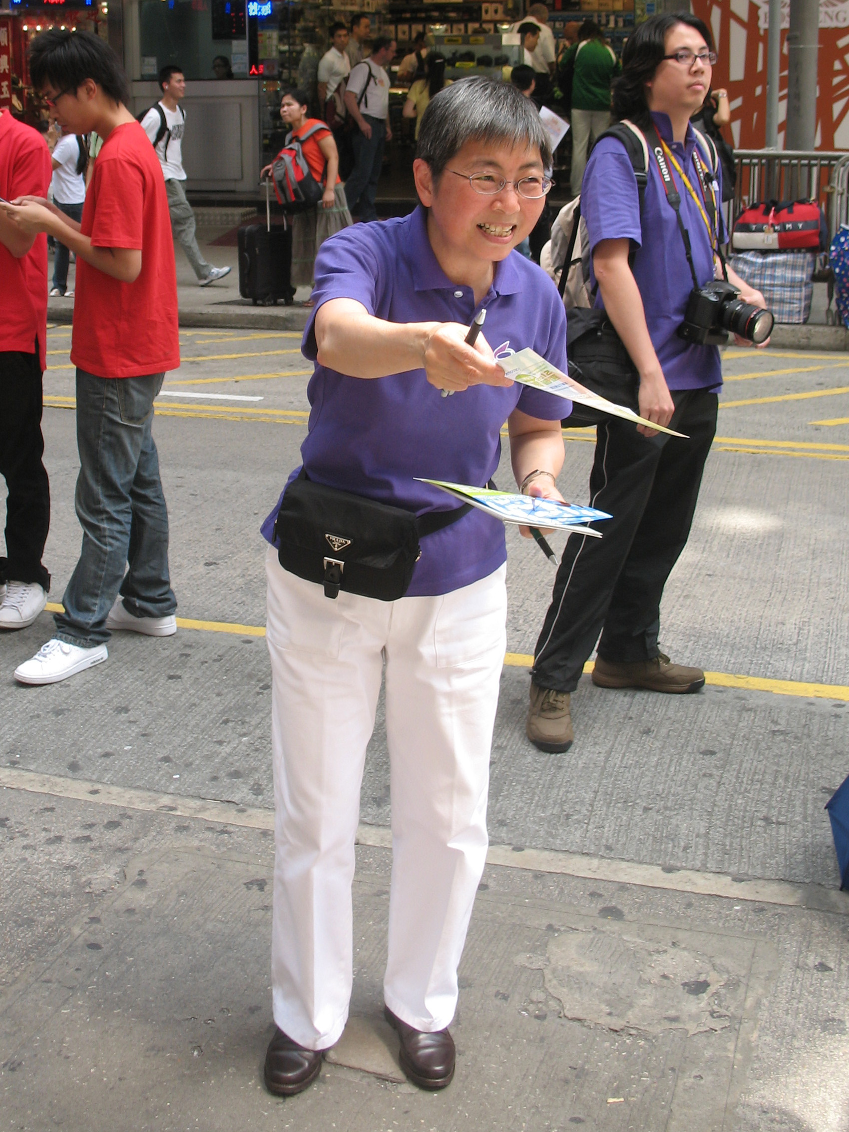 吳靄儀於銅鑼灣地鐵站E出口外宣傳當天的萬人撐2012普選 Margaret Ng at Causeway Bay MTR Station Exit E, Promoting the event of support 2012 general election that day